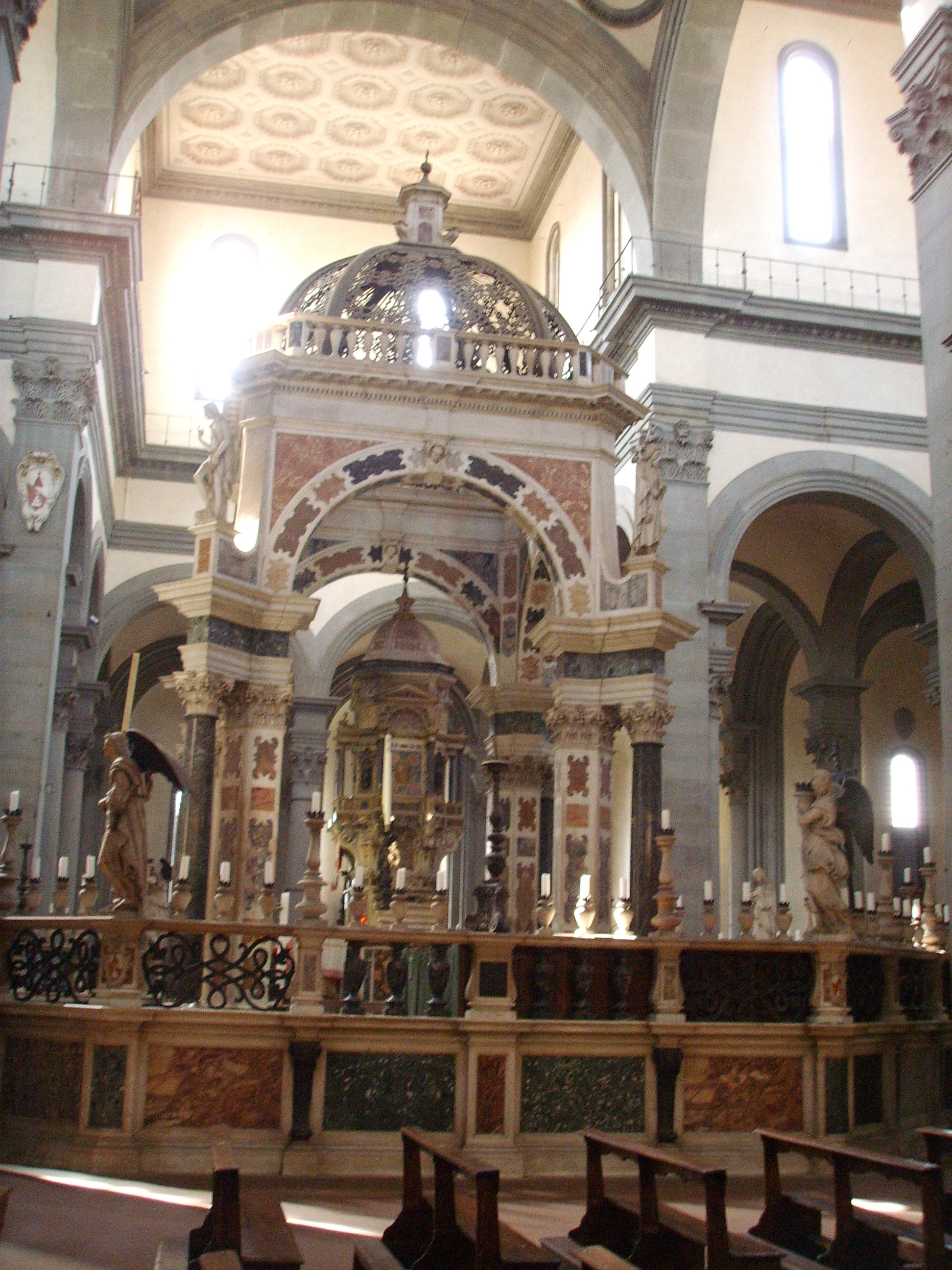 Santo Spirito church, inside view, in Florence Italy